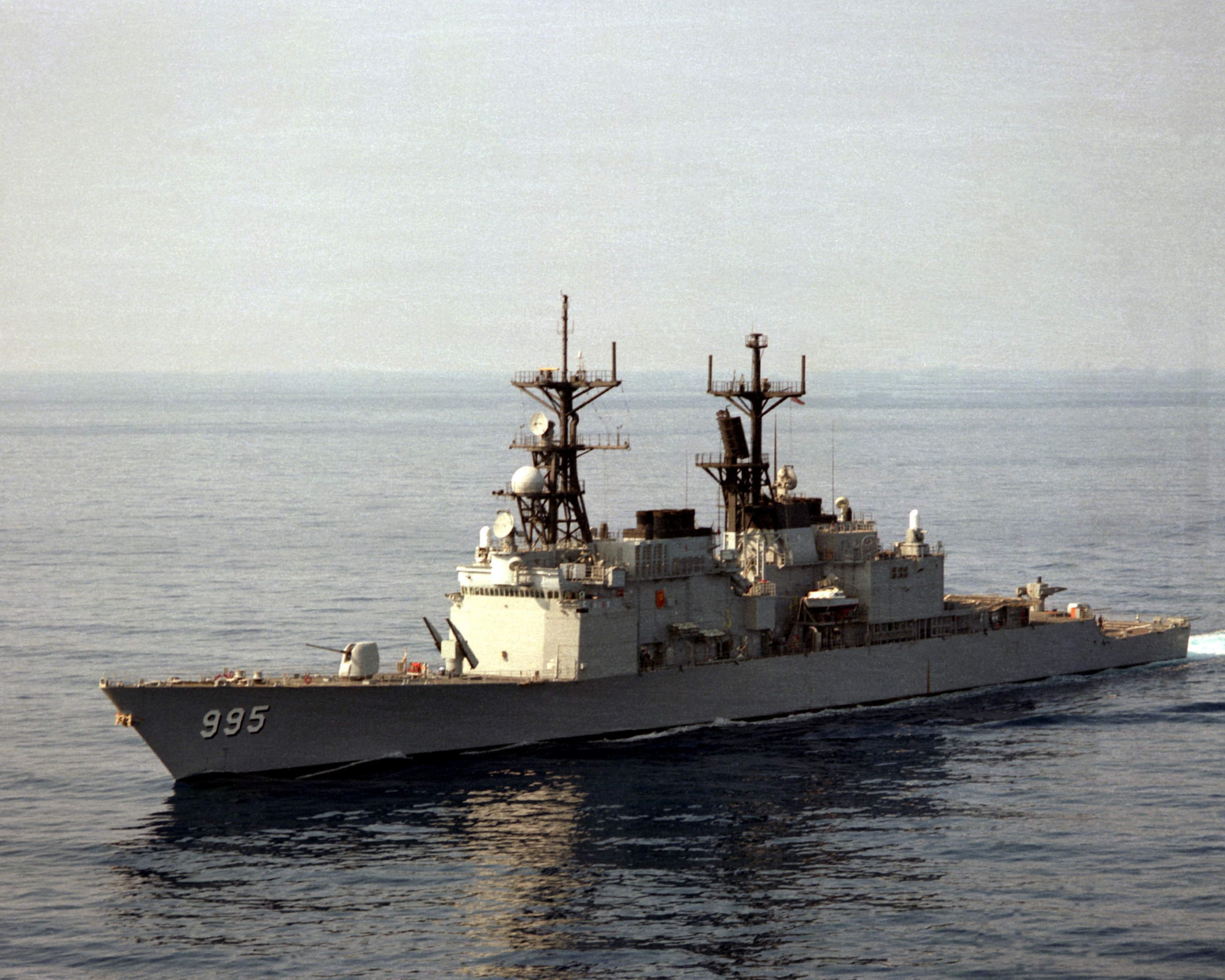 The U.S. Navy guided missile destroyer USS Scott (DDG-995) underway in 1986.